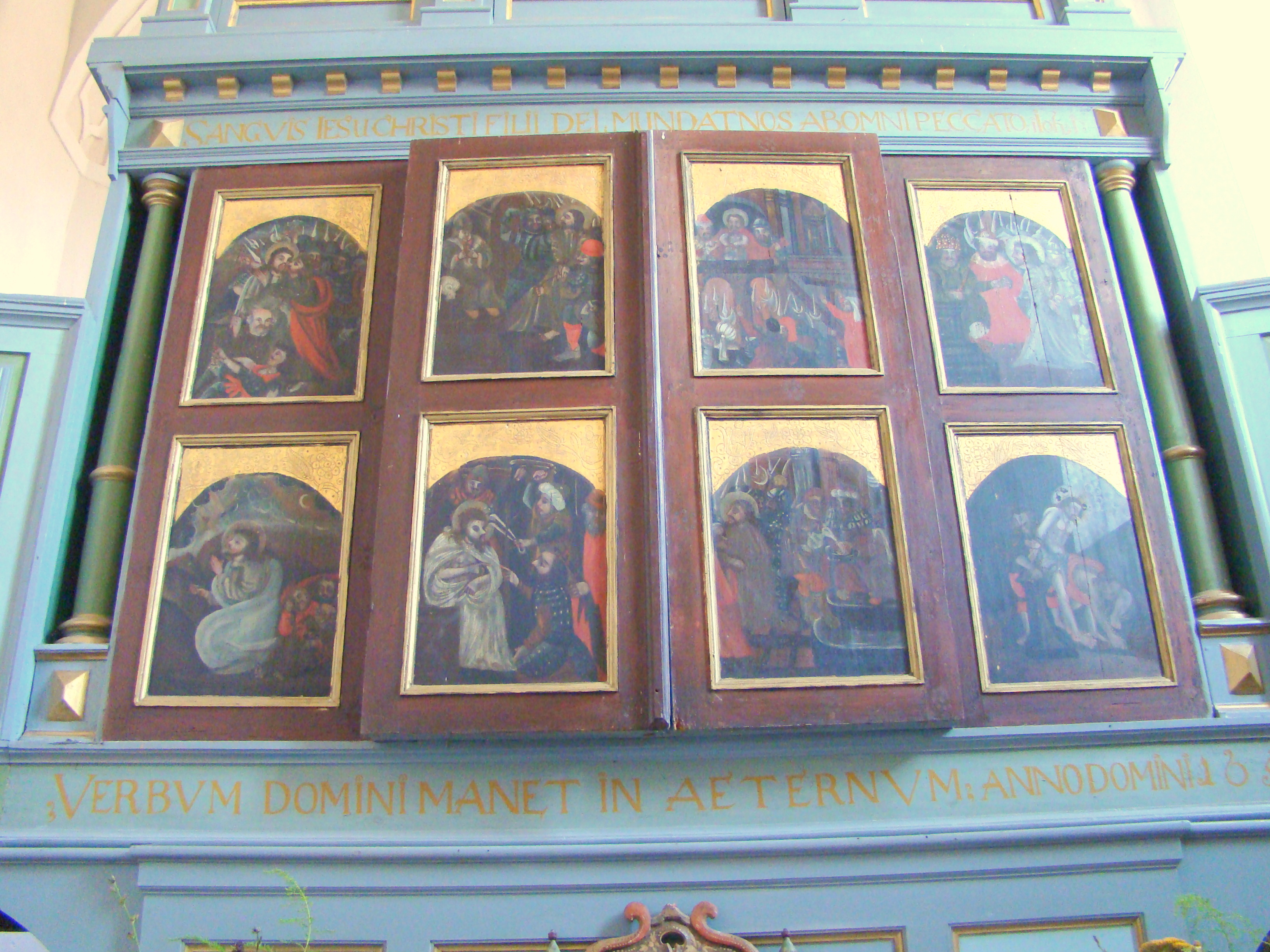 Fortified church in Meșendorf, Brașov County, Romania